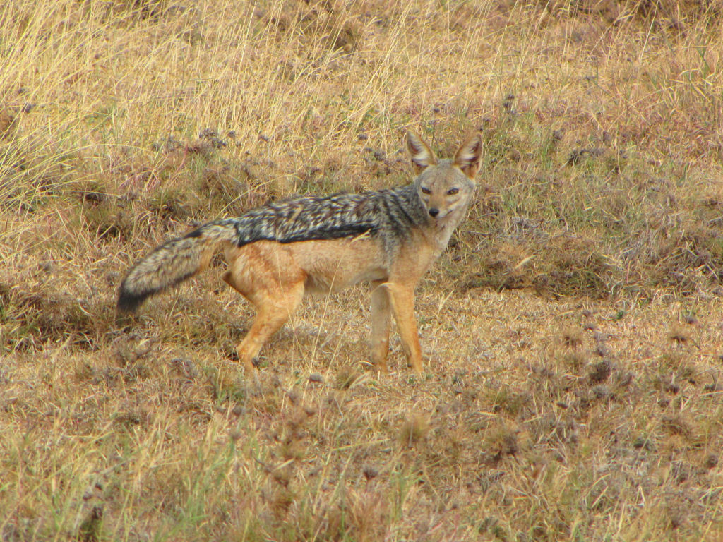 East African Black-backed Jackal (Canis mesomelas schmidti), Lake Manyara National Park, Tanzania